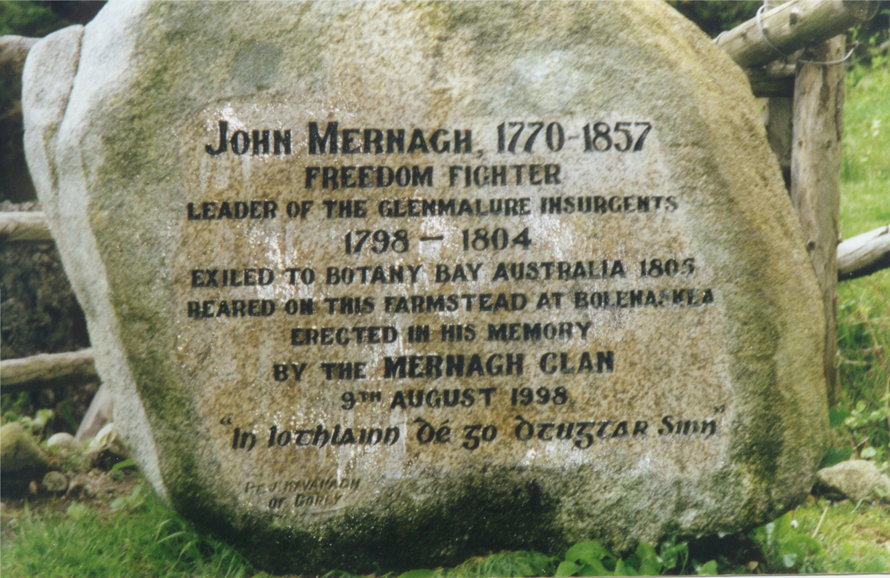 Monument to John Murnagh in Glenmalure